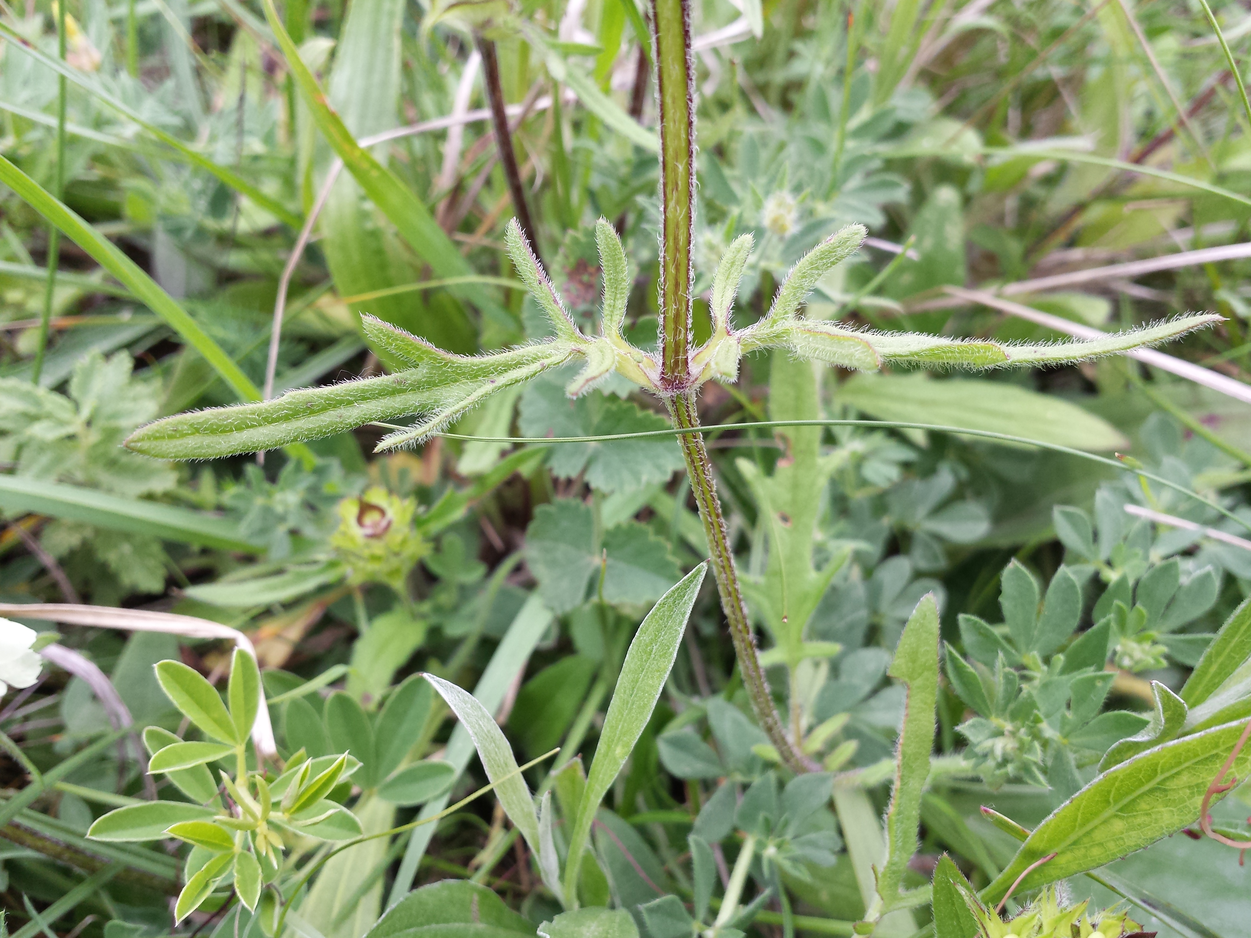 Stem with leaves Taxonym: Prunella laciniata ss Fischer et al. EfÖLS 2008 ISBN 978-3-85474-187-9 Location: to the east of Neusiedl am See, district Neusiedl am See, Burgenland, Austria - ca. 160 m a.s.l. Habitat: semi-dry grassland